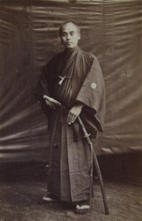 Fukuzawa Yukichi as an interpreter of the First Japanese Embassy to Europe (1862) in Utrecht, Netherlands.